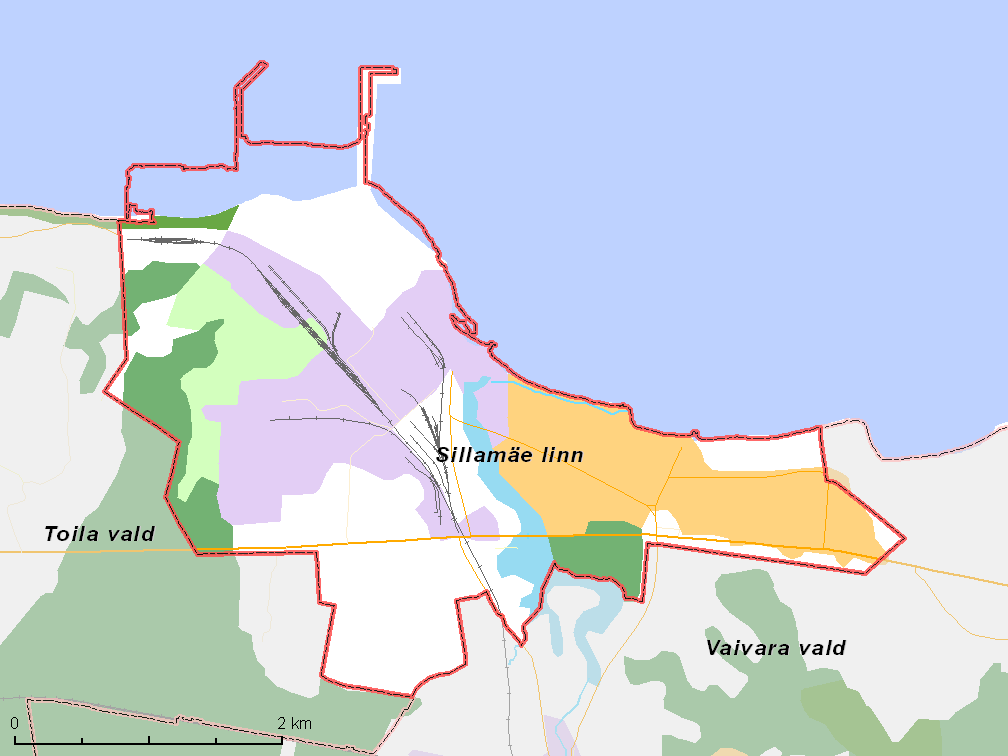 Map of municipality in Estonia